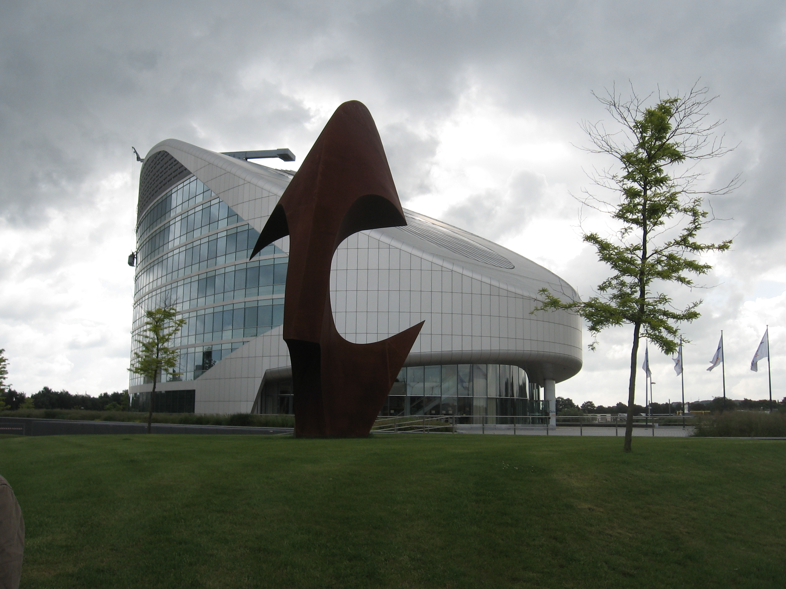 European HQ of SABIC